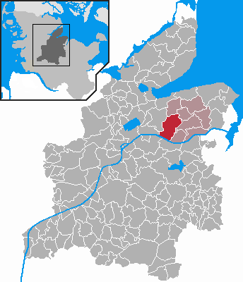 Locator maps of municipalities in Schleswig-Holstein - District Rendsburg-Eckernförde